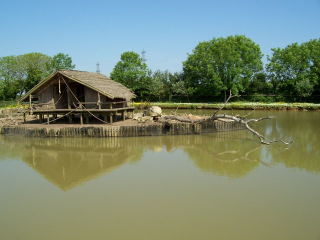 Capybara island. One of many creatures to see (or not as it may be) at Folly Farm. The world's largest rodent